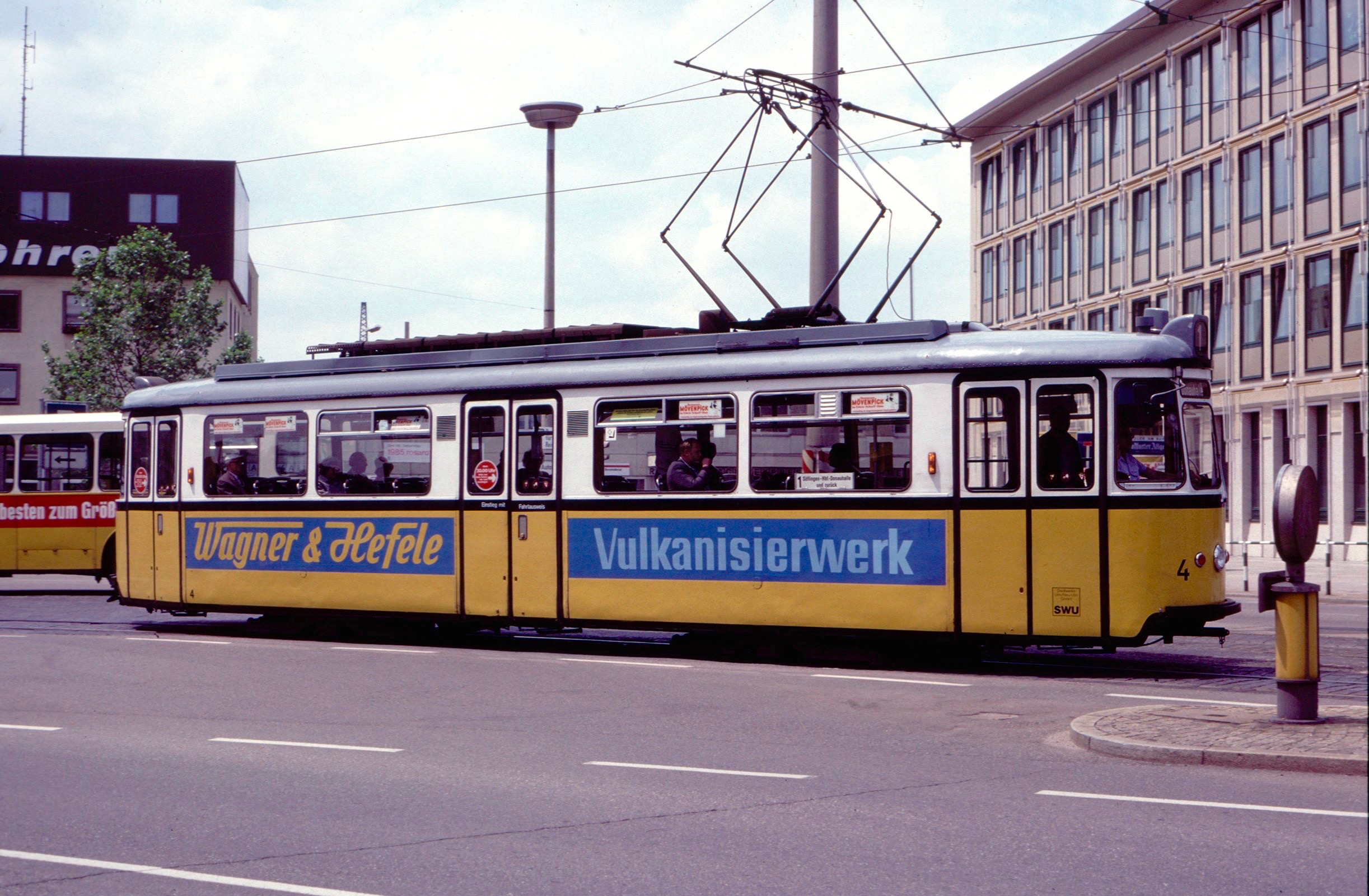 Ulm tram 4 at Ulm Hbf (main railway station) in 1985. Car 4 was built in 1958 by Maschinenfabrik Esslingen. It was scrapped in 1987 and was replaced by an ex-Stuttgart GT4 tram that was given the same fleet number in Ulm.